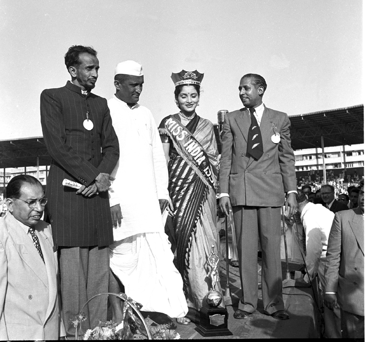 XPDEAM/April.52,A57h(Common Caption as for No. XP26905).Photo shows “Miss India” after being crowned, Mr. S.K. Patil, President, BPCC and Ex-Mayor and two of the sponsors of the Contest.